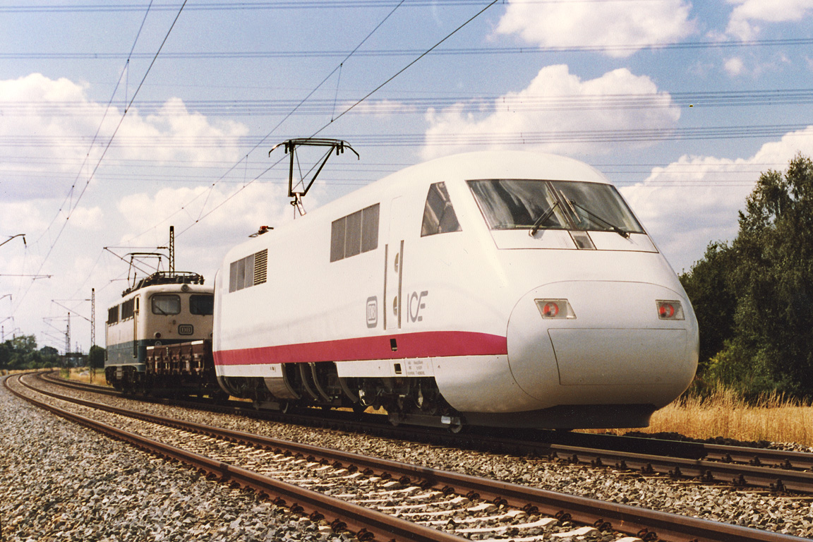 One of the powerheads of the Intercity-Express prototype InterCityExperimental on the freight line between Karlsfeld (near Munich) and Olching. After each test run, the powerhead was pulled back to the start with a DB class 139 locomotive.